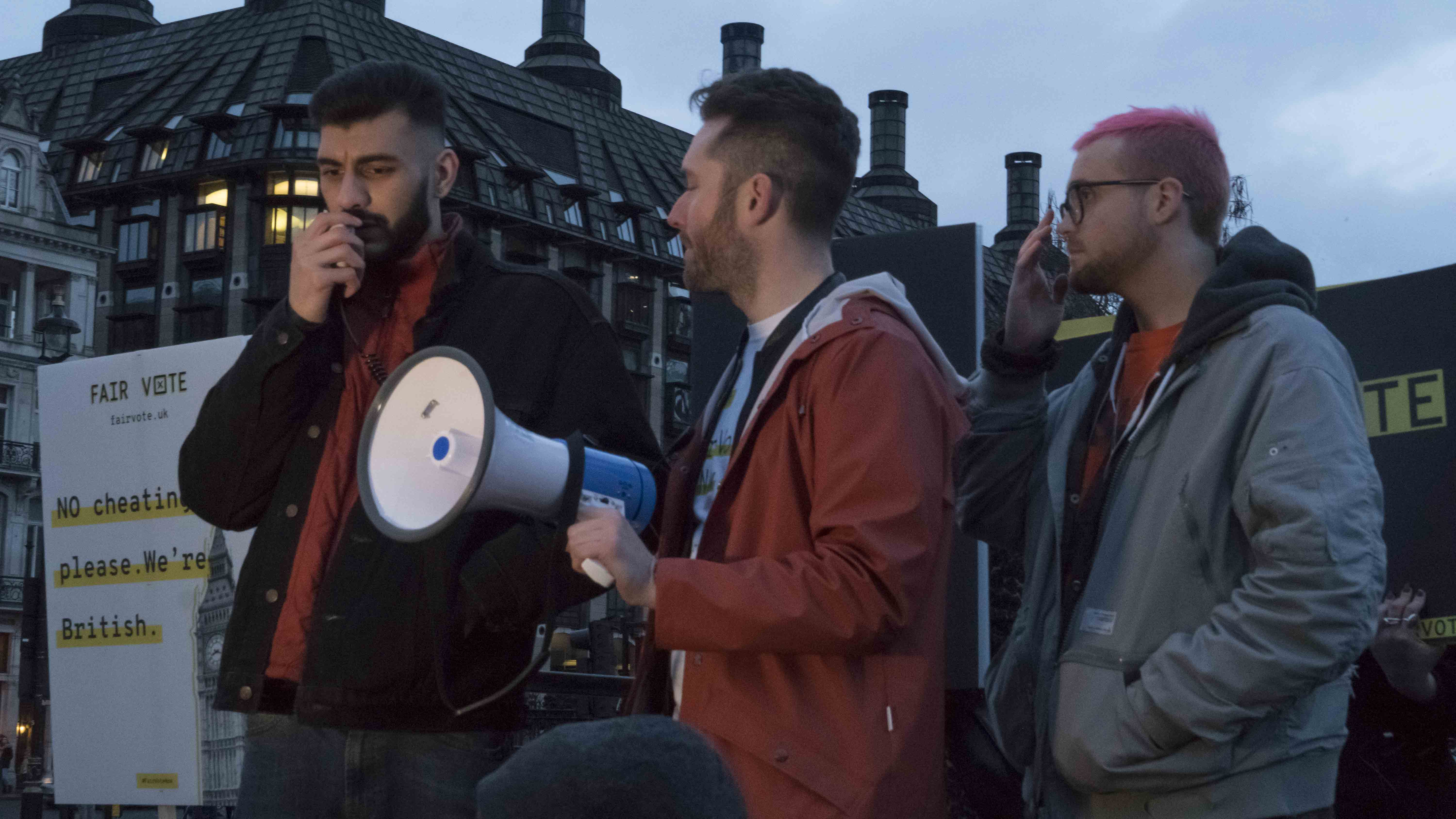 A protest following the Cambridge Analytics and Facebook data scandal with Christopher Wylie and Shahmir Sanni.